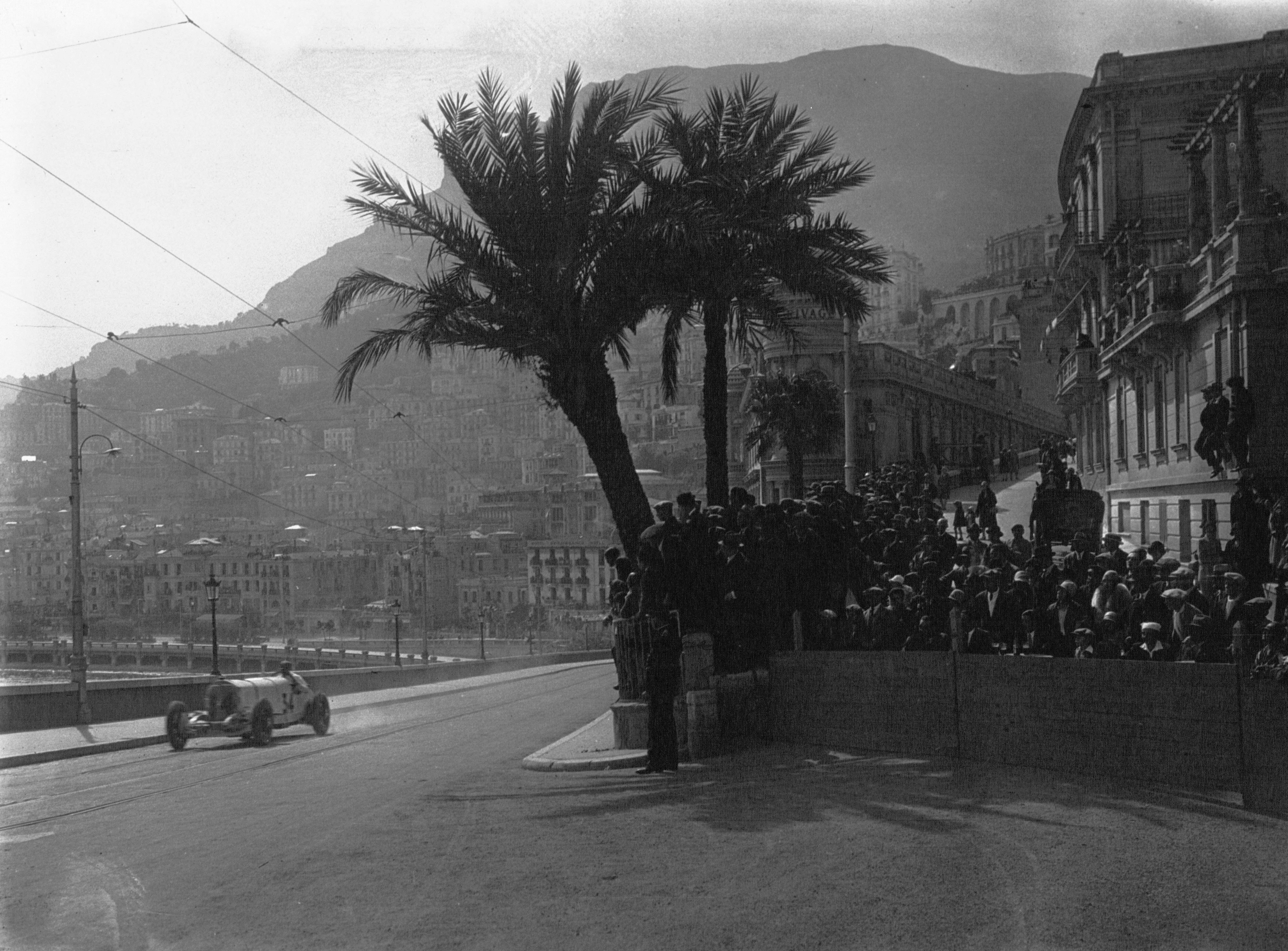 Rudolf Caracciola at the 1929 Monaco Grand Prix